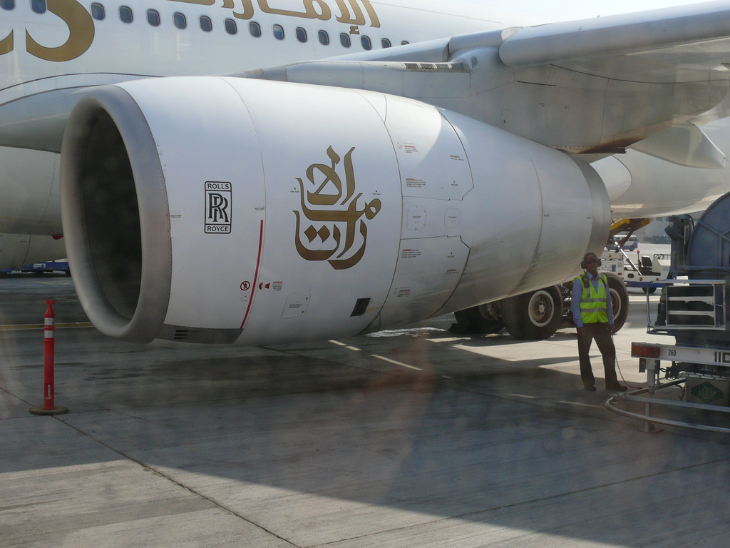 This is a photo showing a Rolls Royce engine on an Emirates Airline A330-243 before take-off at Dubai International Airport in Dubai, United Arab Emirates on 23 September 2007.